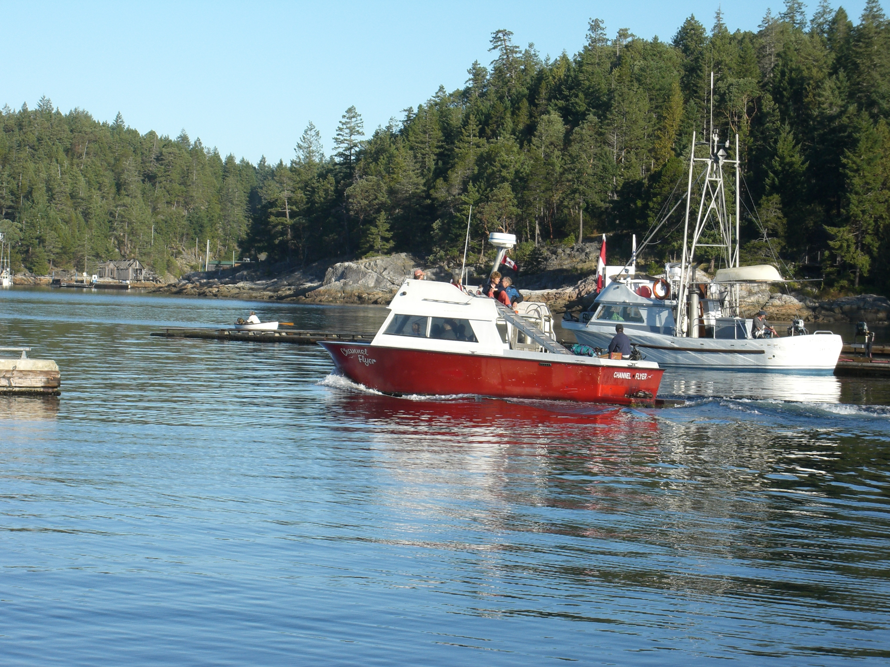 Savary Island water taxi "Channel Flyer" leaves Lund, BC with passengers bound for Savary Island on September 23, 2006.